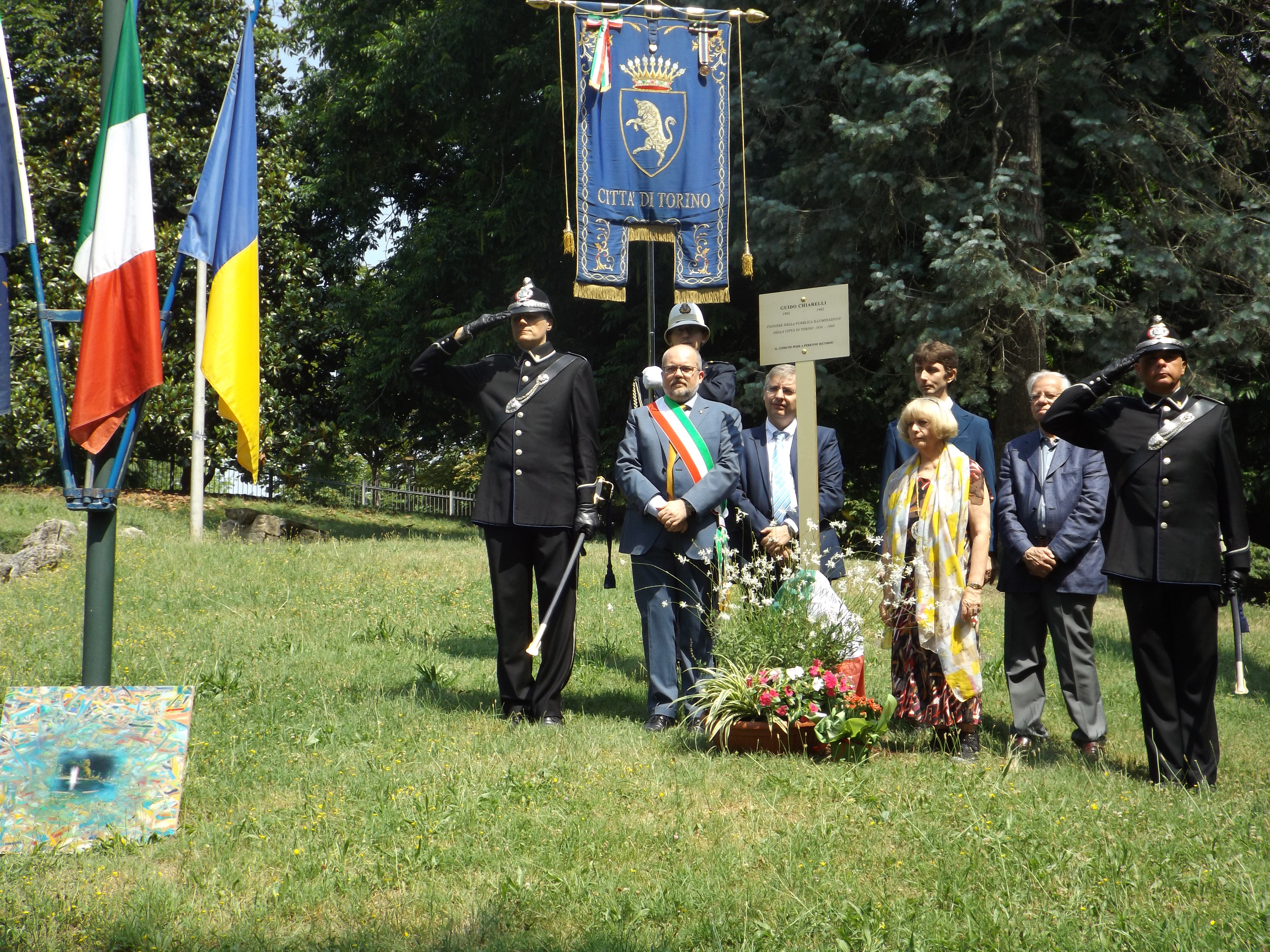 Inauguration of a commemorative plaque for Guido Chiarelli in Parco del Valentino in Turin, 3 July 2019